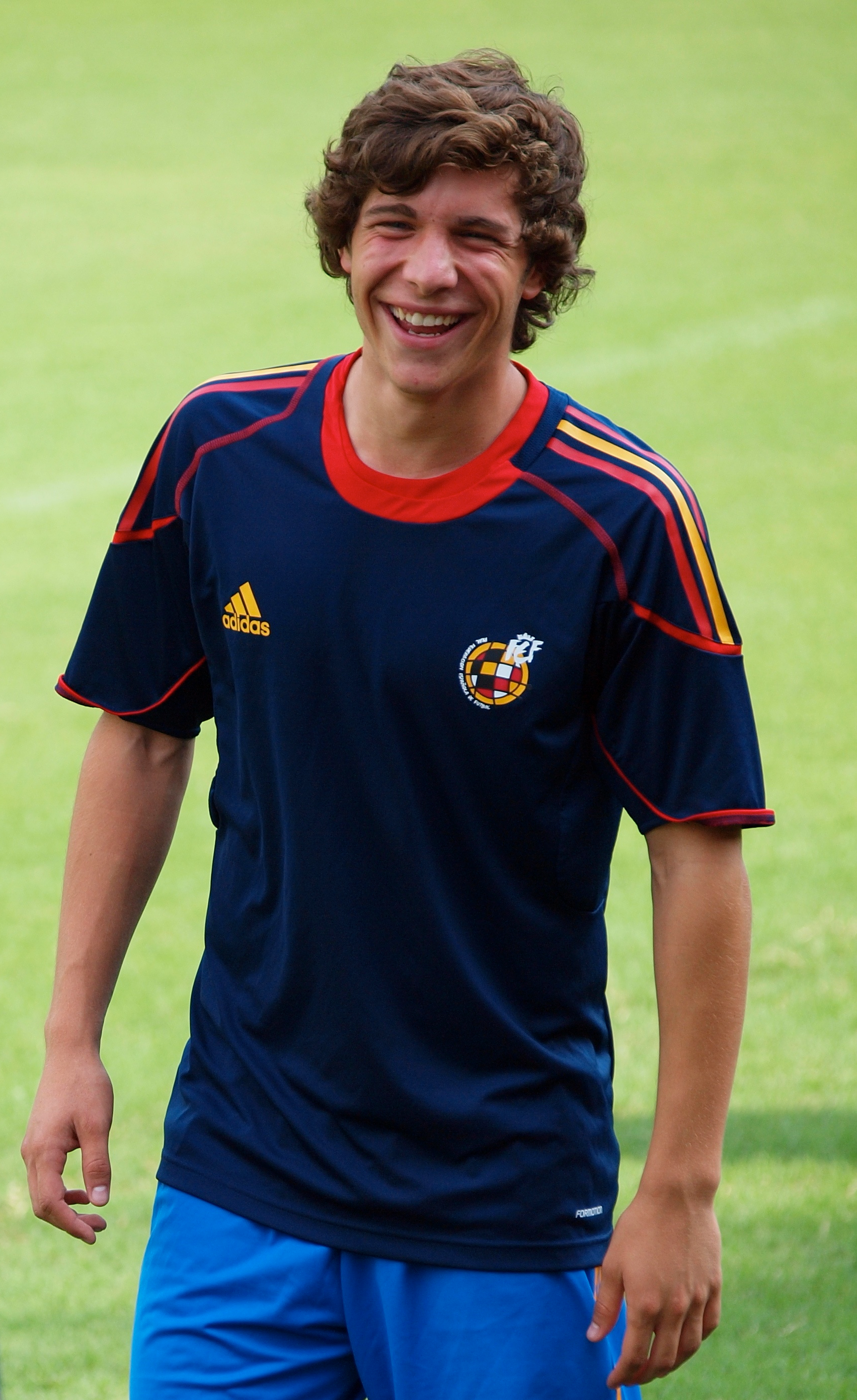 Sergi Roberto Carnicer (better known simply as 'Sergi Roberto') playing for Spain at the 2010 SBS Cup.